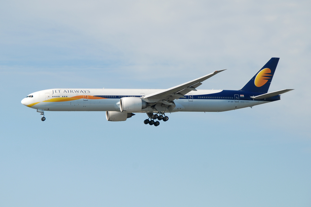 VT-JEH Boeing 777-35RER msn 35166/678 operated by Jet Airways and seen on short finals for 27L at London Heathrow (LHR/EGLL).